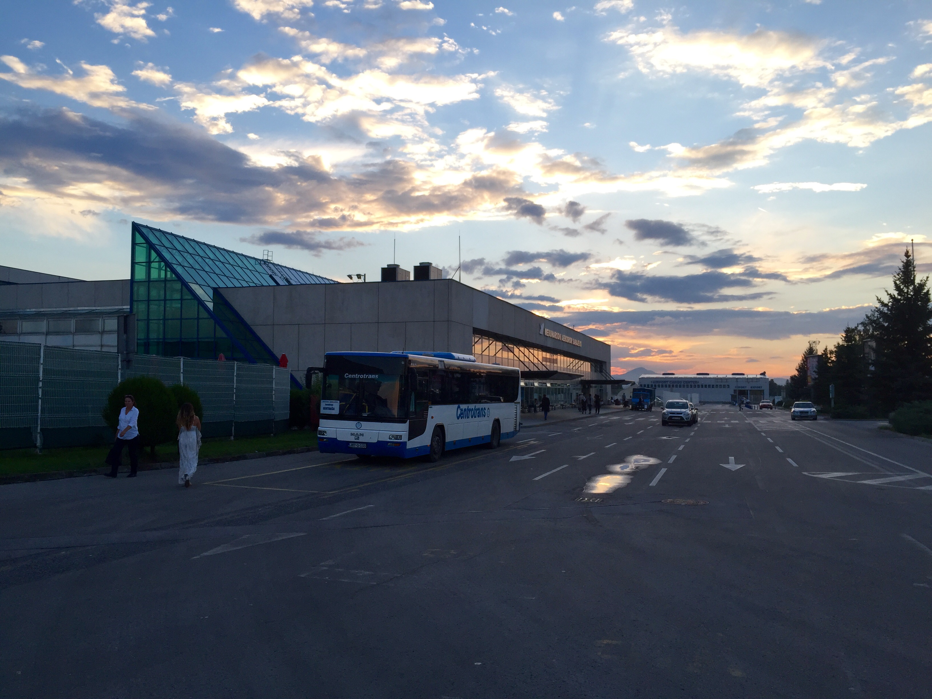 Sarajevo Airport terminal building and bus stop